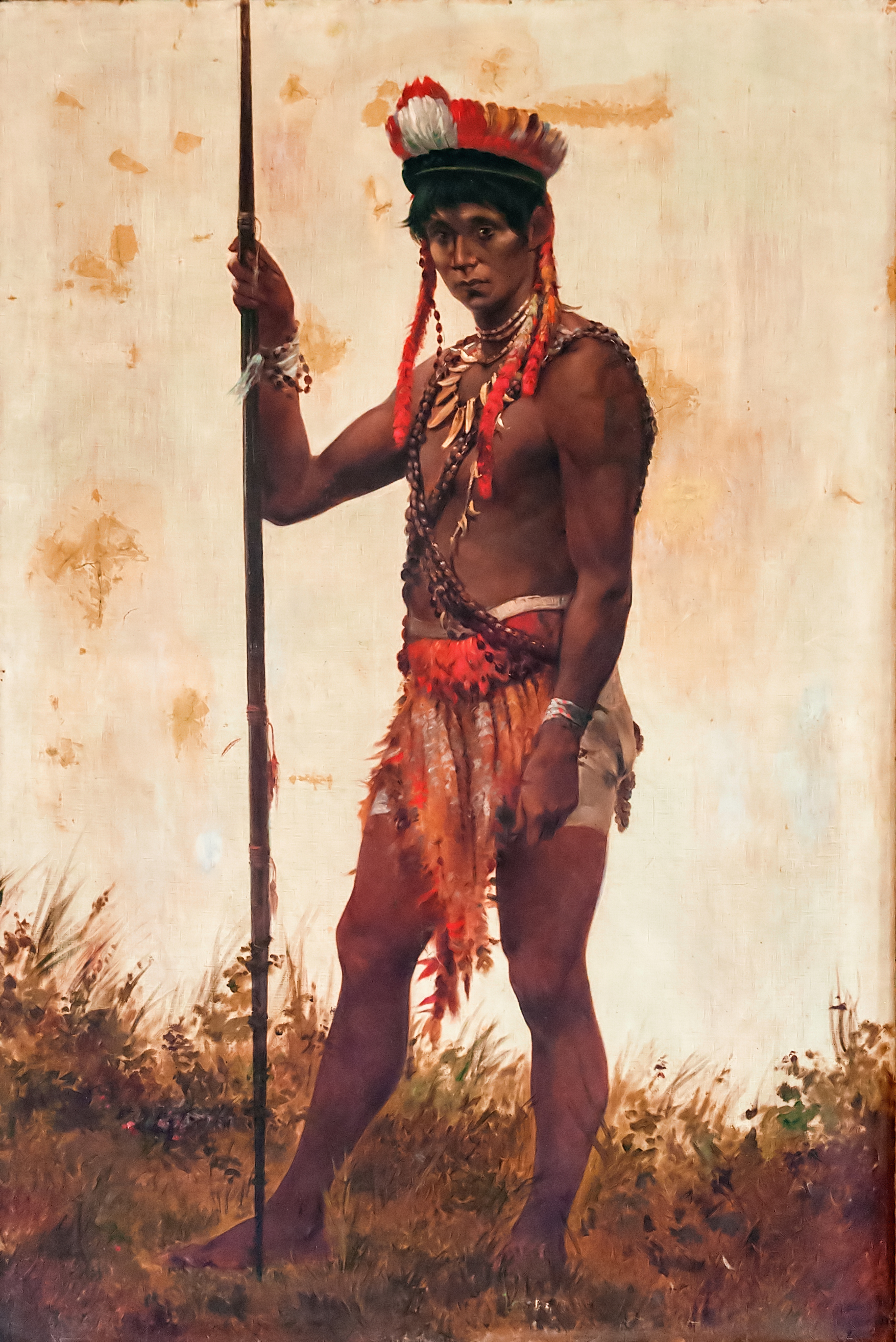 Índio do Río Uaupés. Décio Villares 194 x130 cm. 1882